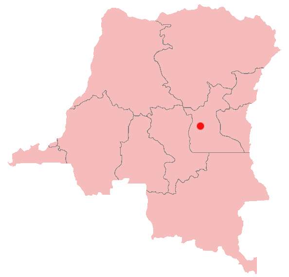 Kindu, Democratic Republic of the Congo Location Map; created with the GIMP. Made by User:Acntx.